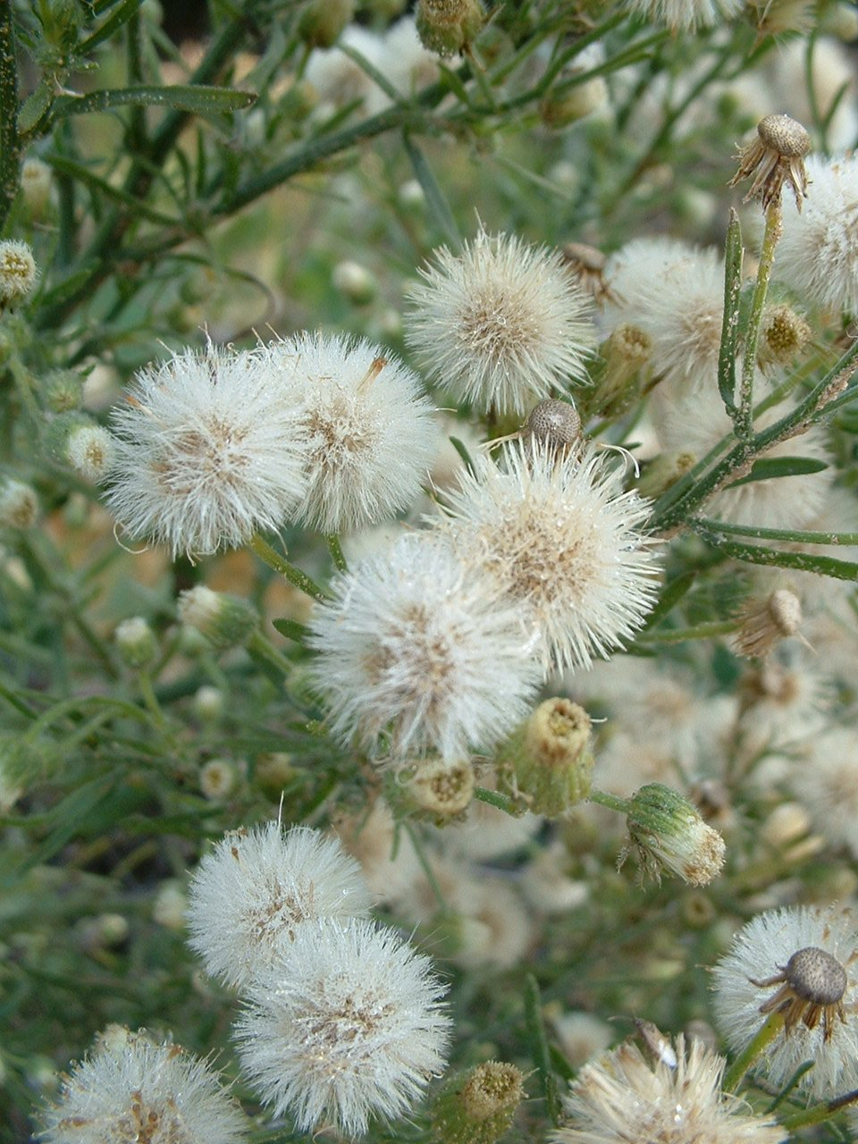 Conyza bonariensis (Horseweed) seed heads and flowers. Photographed by myself in December 2005. Fuji FinePix 2650 camera.